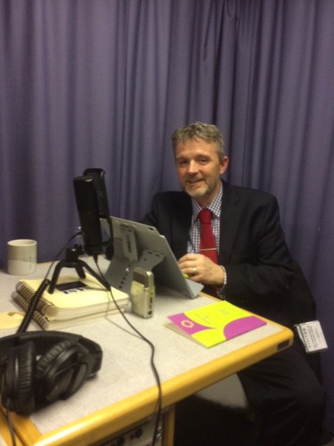 Martyn Percy recording reflections for Daily Prayer- Lent